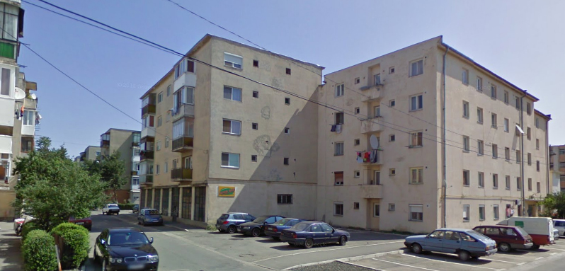 arad